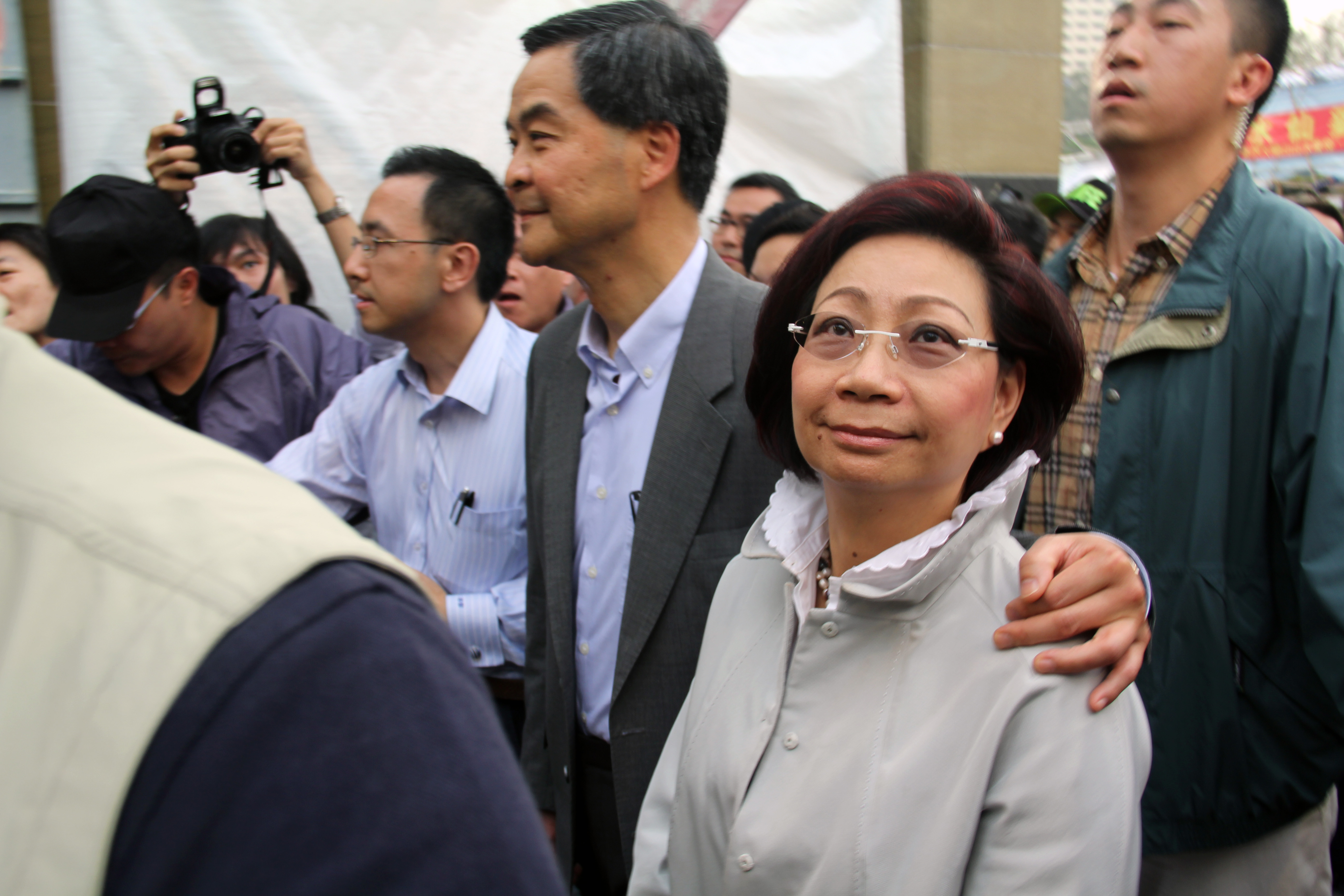 Twenty minutes later, Leung Chun-ying and his wife leave the Victoria Park. Mrs. Leung looks exhausted.